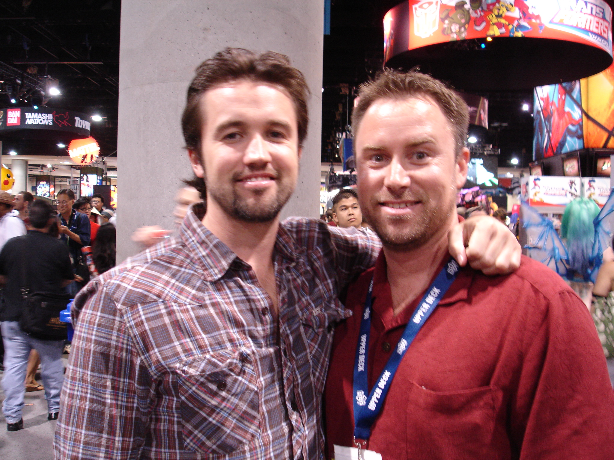 Rob McElhenney (Mac from FX TV Series "It's Always Sunny In Philadelphia") poses on the Exhibition Floor at Comic Con 2008 with a fan.